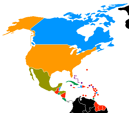 gold cup final color map